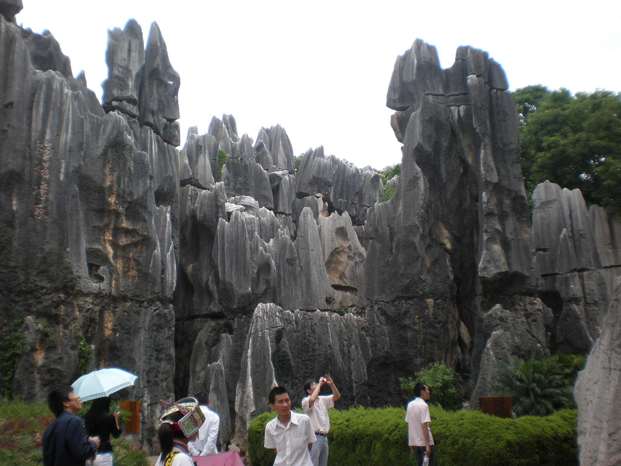 A section of the western area of the Major Stone Forest, the main portion of the Stone Forest in Yunnan.